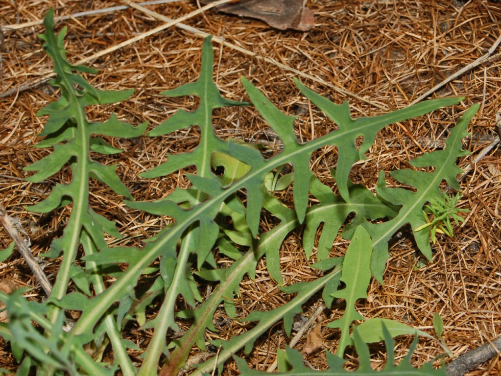 Lactuca perennis - Valle Argentera, Torino, Italy